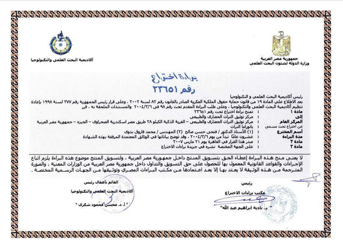 CULTURAMA patent